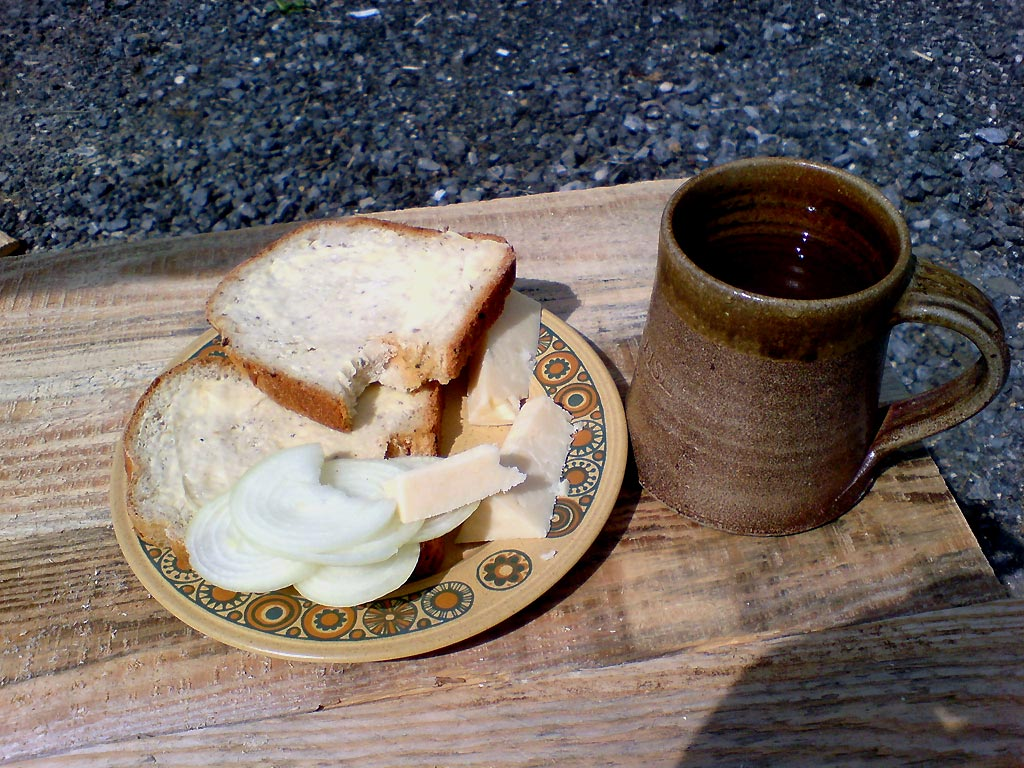 A Proper Ploughmans Lunch